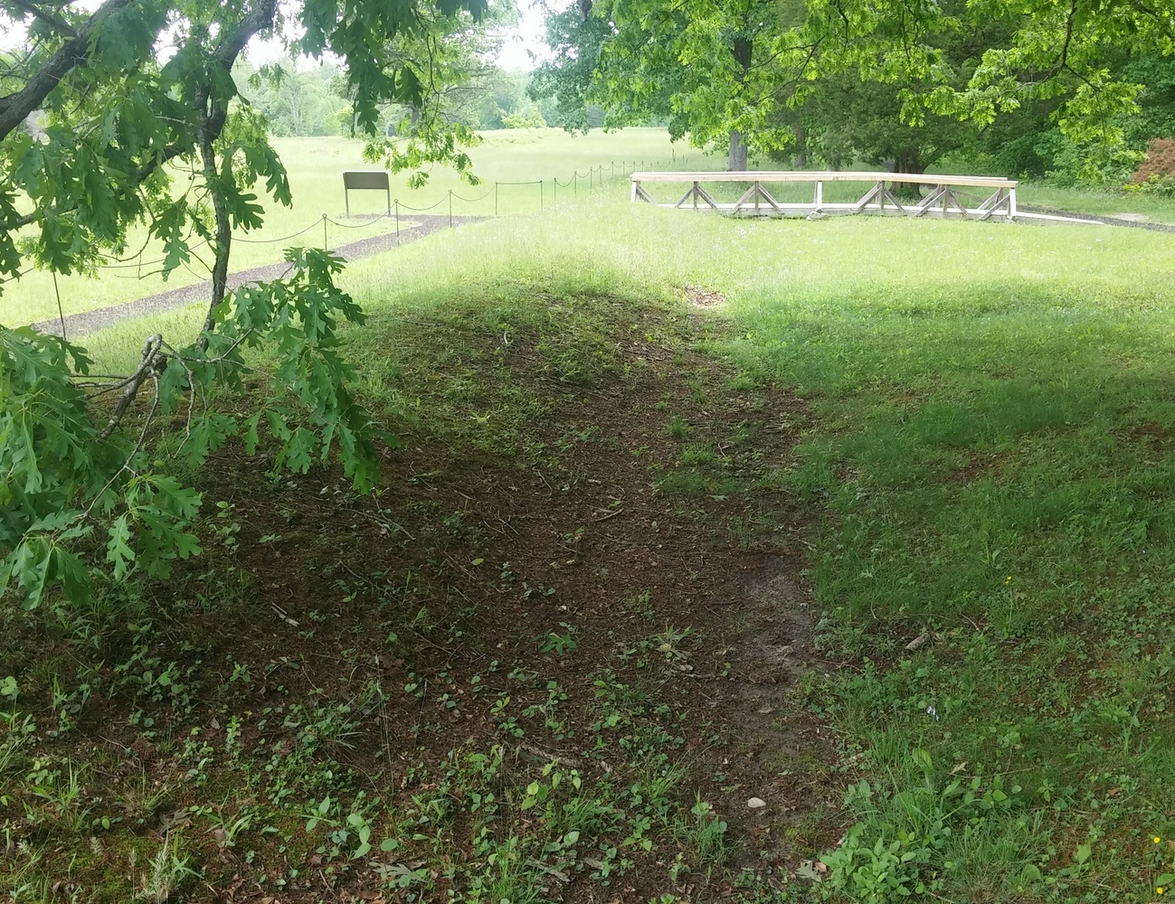 "Bloody Angle" trench at Spotsilvania